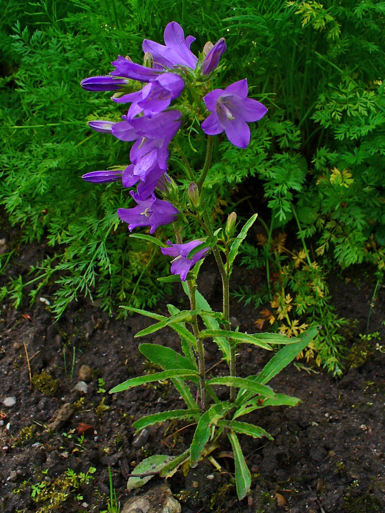 Campanula sibirica, Campanulaceae, Siberian Bellflower, habitus; Botanical Garden KIT, Karlsruhe, Germany.